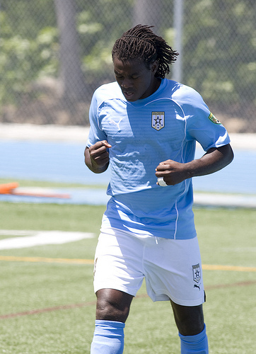 Ema Bentil